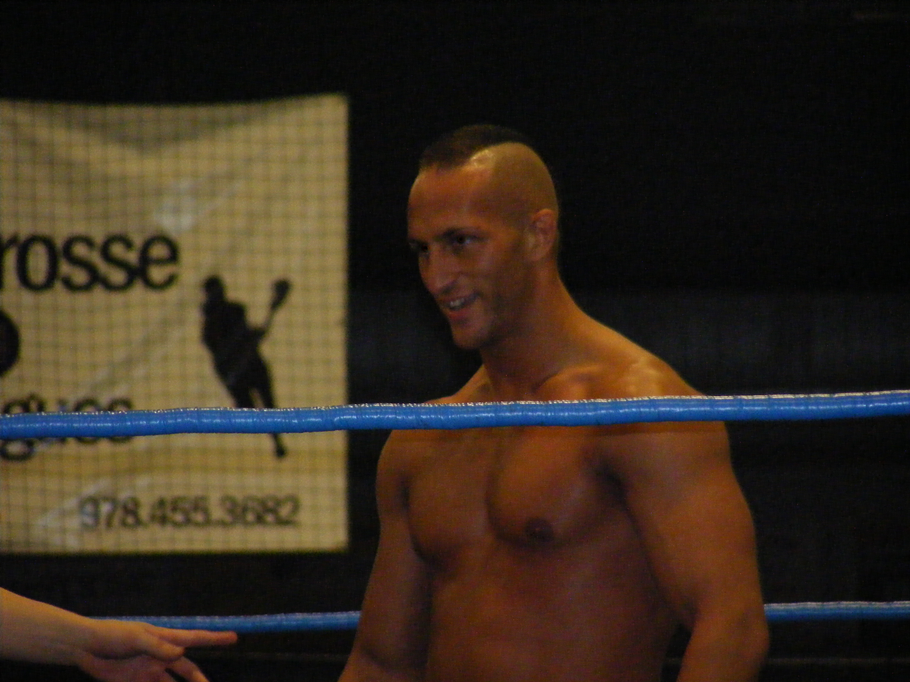 Tommaso Ciampa prior to a match in Combat Zone Wrestling in Tyngsboro, Massachusetts, on October 16, 2010.